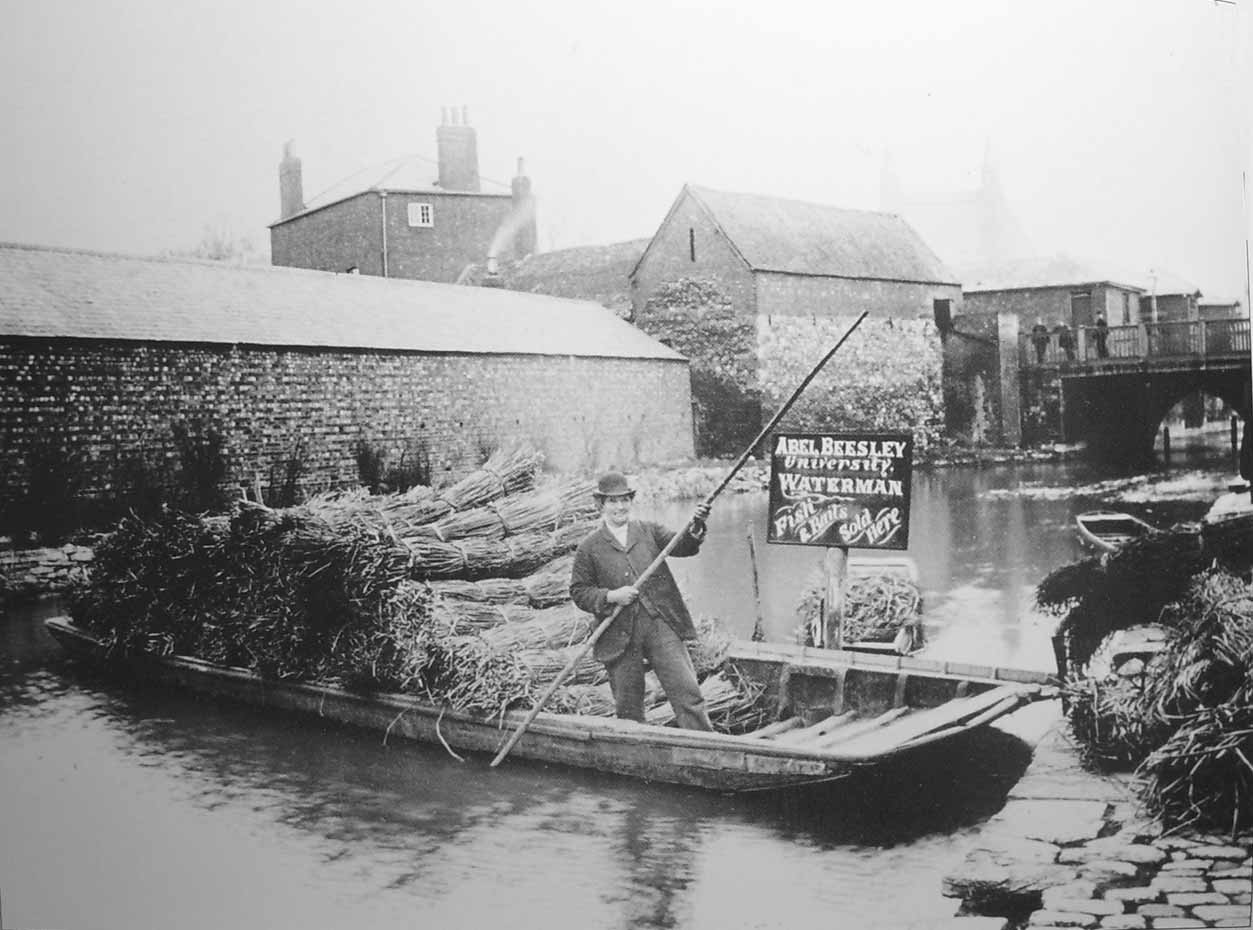 Abel Beesley on Castle Mill Stream (not the canal) in Oxford, Oxfordshire. In the background is a warehouse of Worcester Street canal basin (left and centre) with the Queen's Arms beyond. Partly visible on the right is Pacey's Bridge carrying Park End Street.